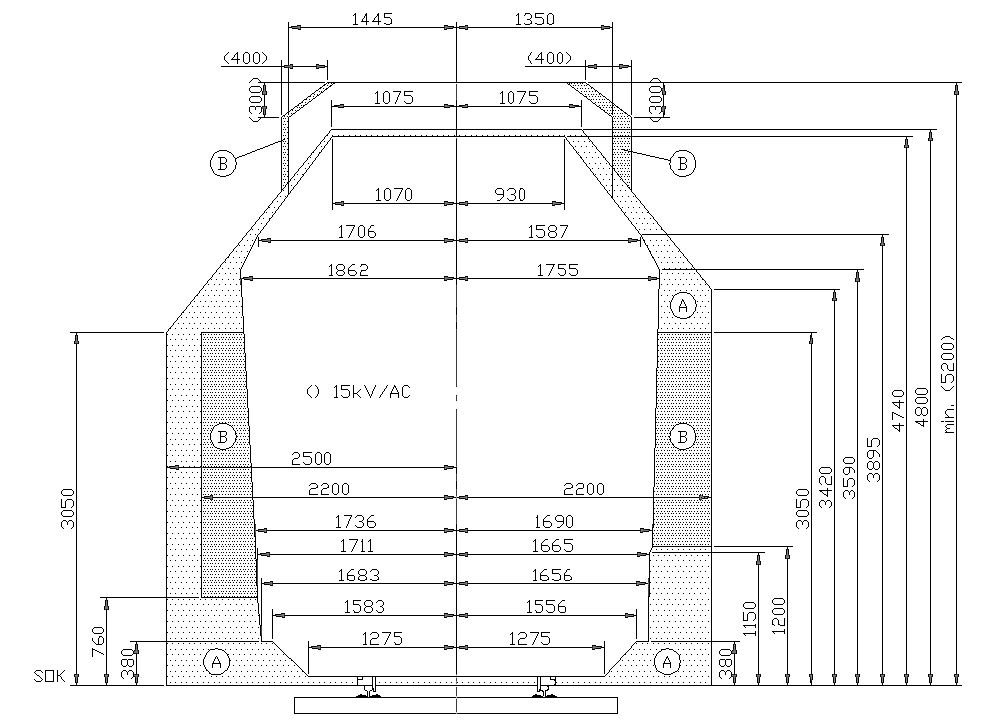 Minimum clearance outline of German railways according to the Eisenbahn-Bau- und Betriebsordnung (EBO), for loading gauge G2